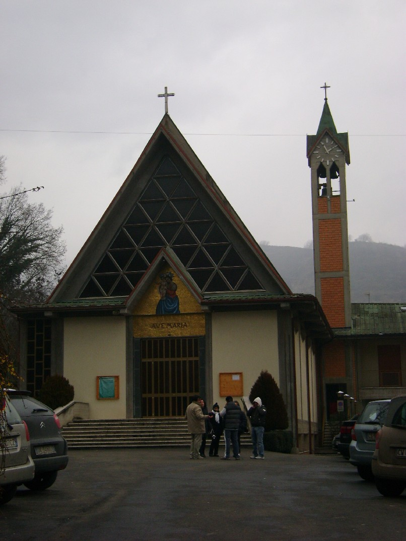 The church of Saint Maria del Sasso to Cusercoli (Civitella di Romagna - province of Forlì-Cesena)